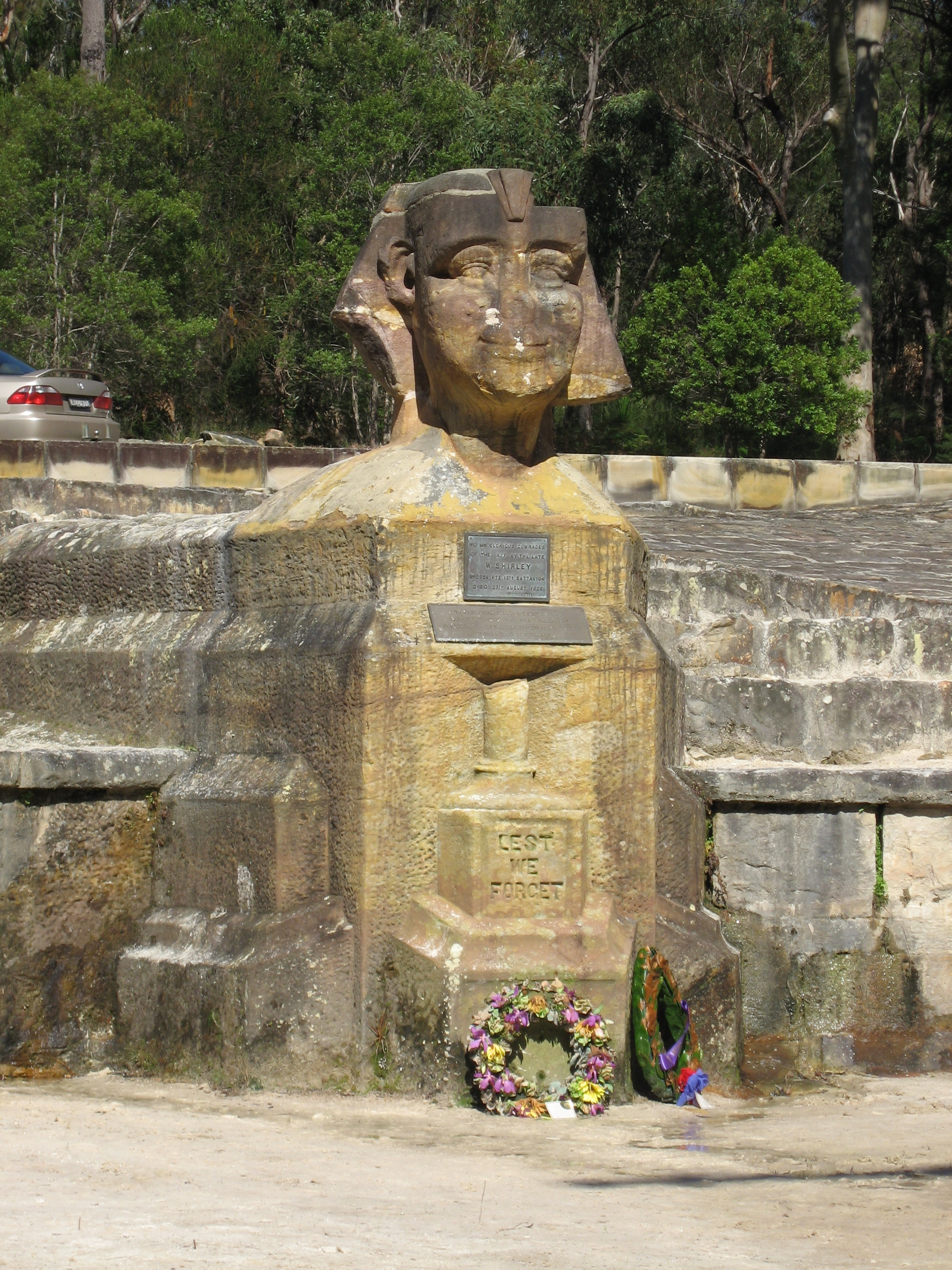 Statue at the Sphinx Memorial, Ku-ring-gai Chase National Park, Sydney.